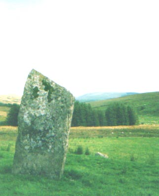 Llech Idris. A 3m high standing stone on a slope overlooking the Gain Valley. 474497